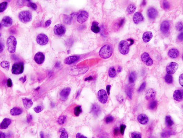 Histopathological image of anaplastic oligodendroglioma in cerebrum. Another view of the same case in a file "Anaplastic_oligodendroglioma_(1).jpg". Hematoxylin & eosin stain.